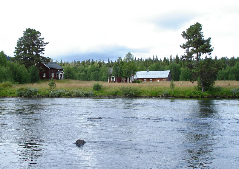 Rasteselet is a desert farmstead on the northern, roadless side of river Juktån between lakes Fjosoken and Överstjuktan. The river can be crossed on a bridge at Rasteselet.